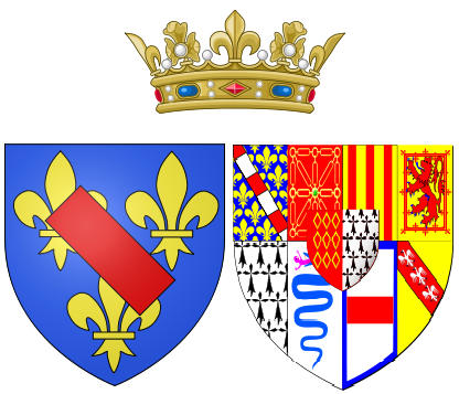 Arms of Charlotte de Rohan as Princess of Condé